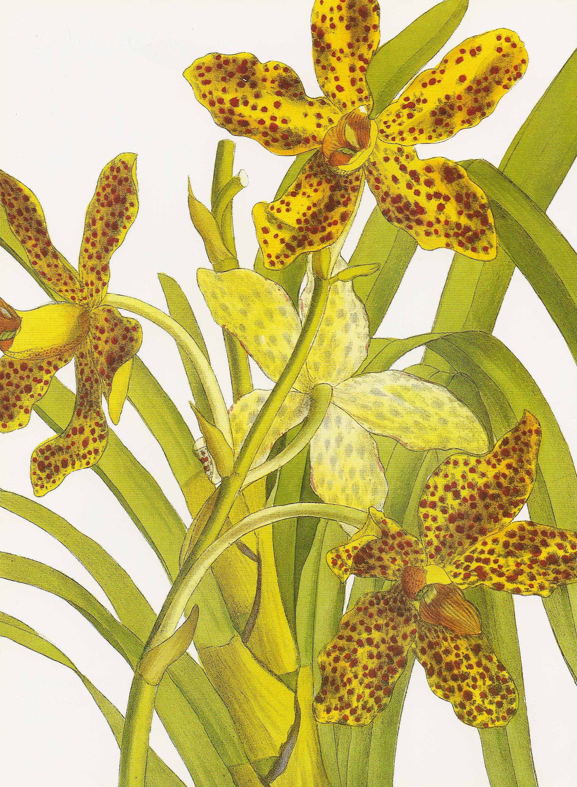 Grammatophyllum speciosum, a hand-retouched chromolithograph by Louis-Aristide-Léon Constans (fl. 1830s-1860s), from the second volume of Paxton's Flower Garden (1851-1852) by John Lindley and Joseph Paxton